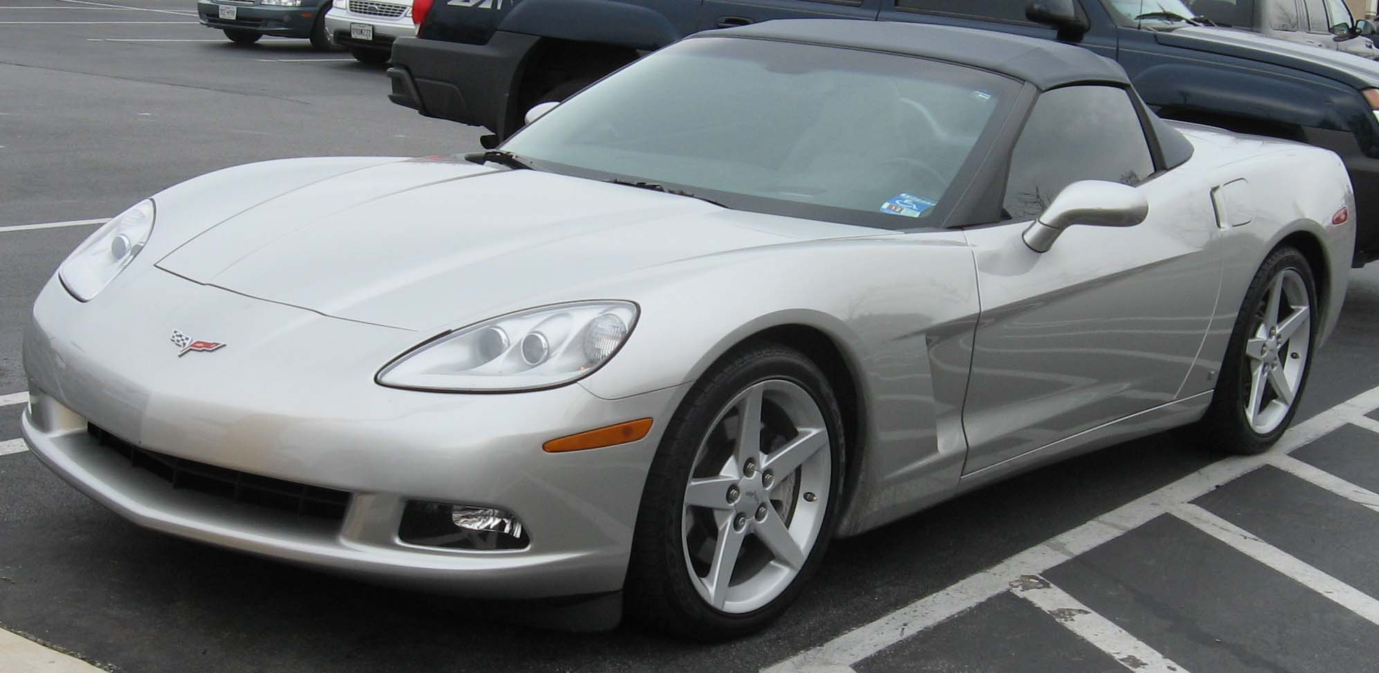 2005-2007 Chevrolet Corvette photographed in USA.